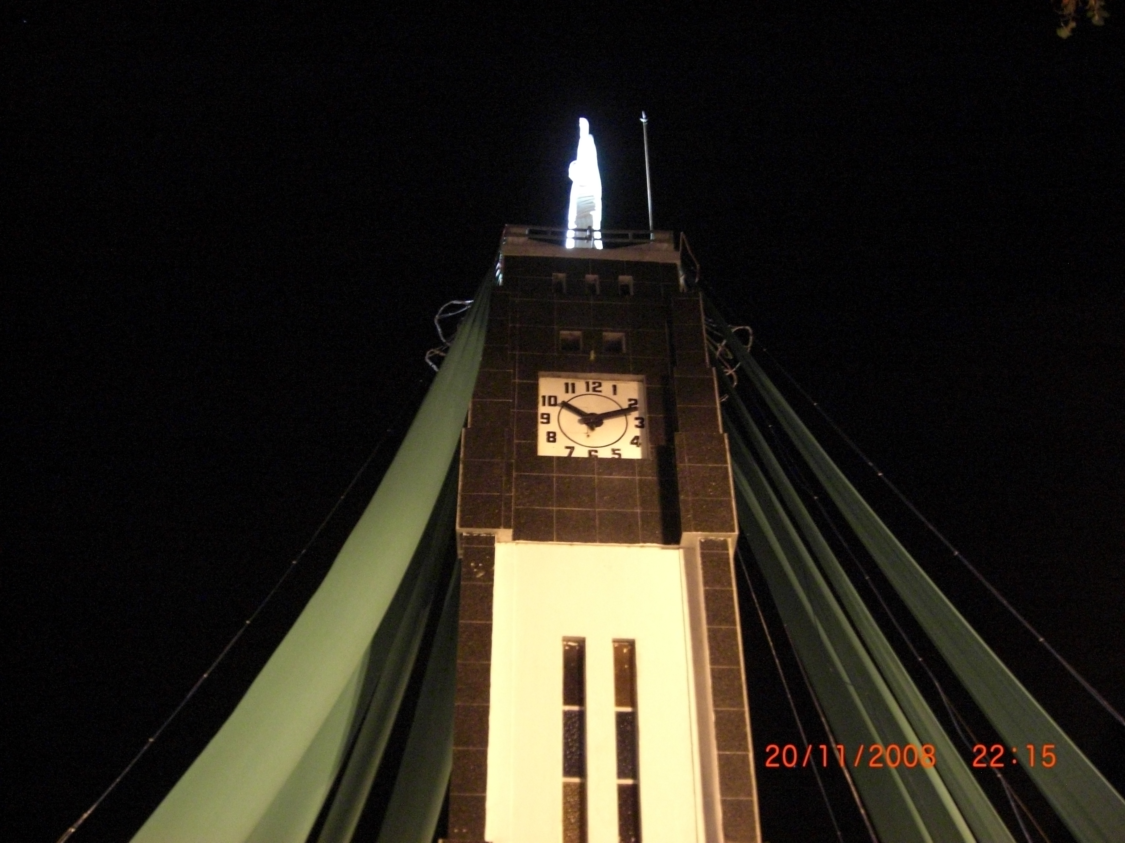 TORRE DA HORA/CRISTO REDENTOR, Russas-CE